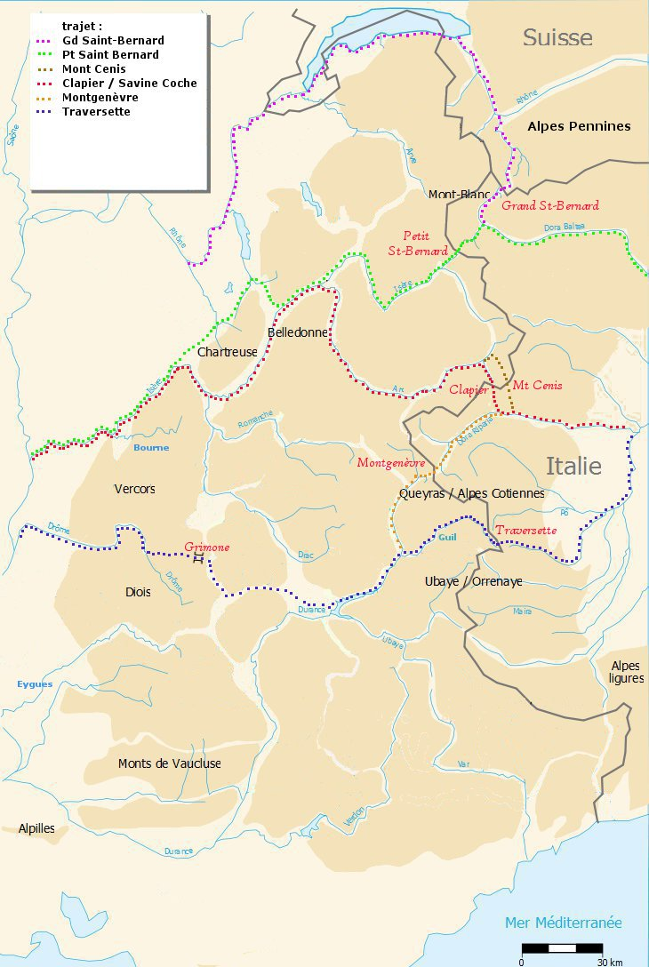 Some possible ways for Hannibal's crossing the Alps in 218 BC